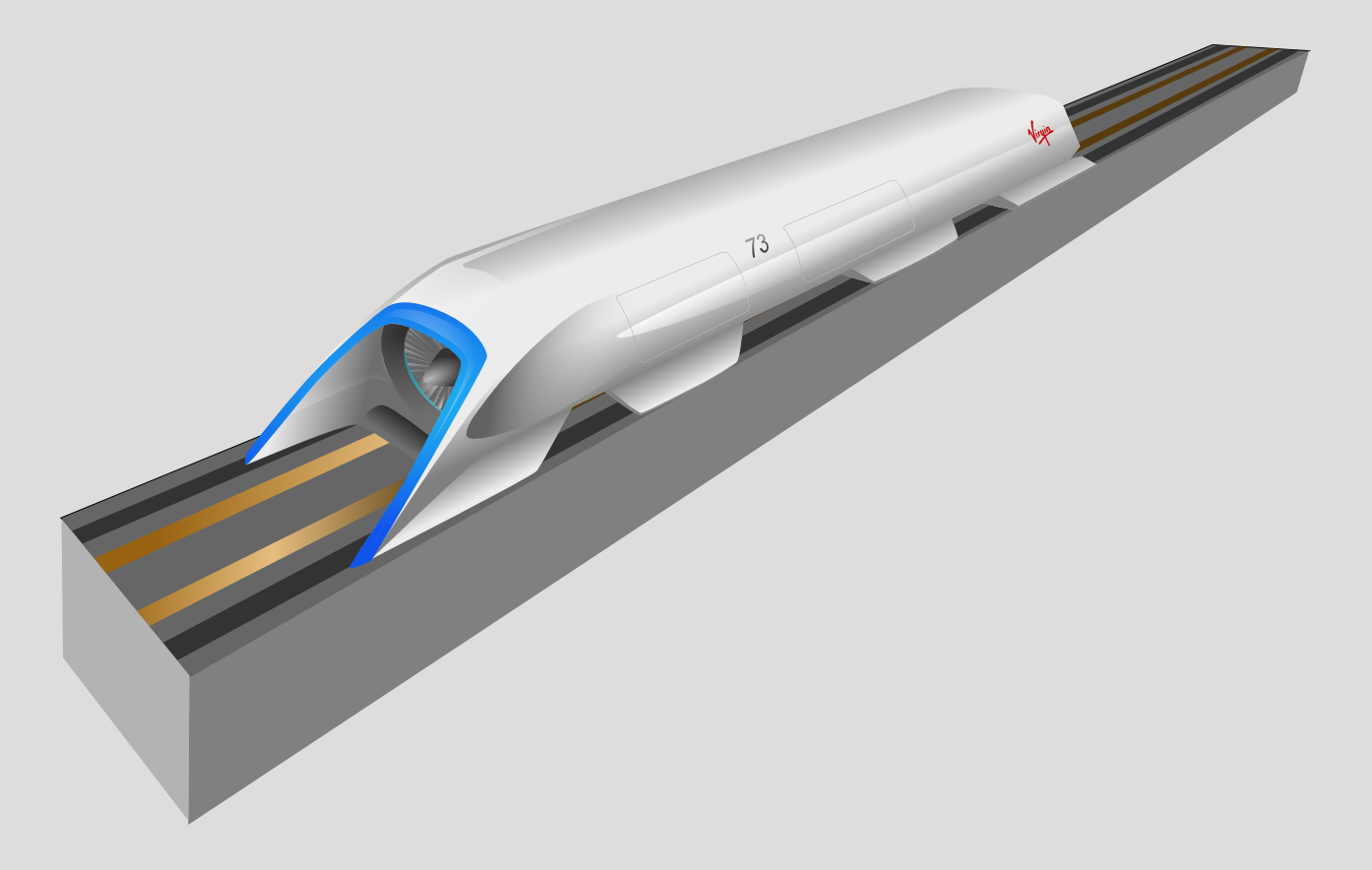 Concept design of hyperloop